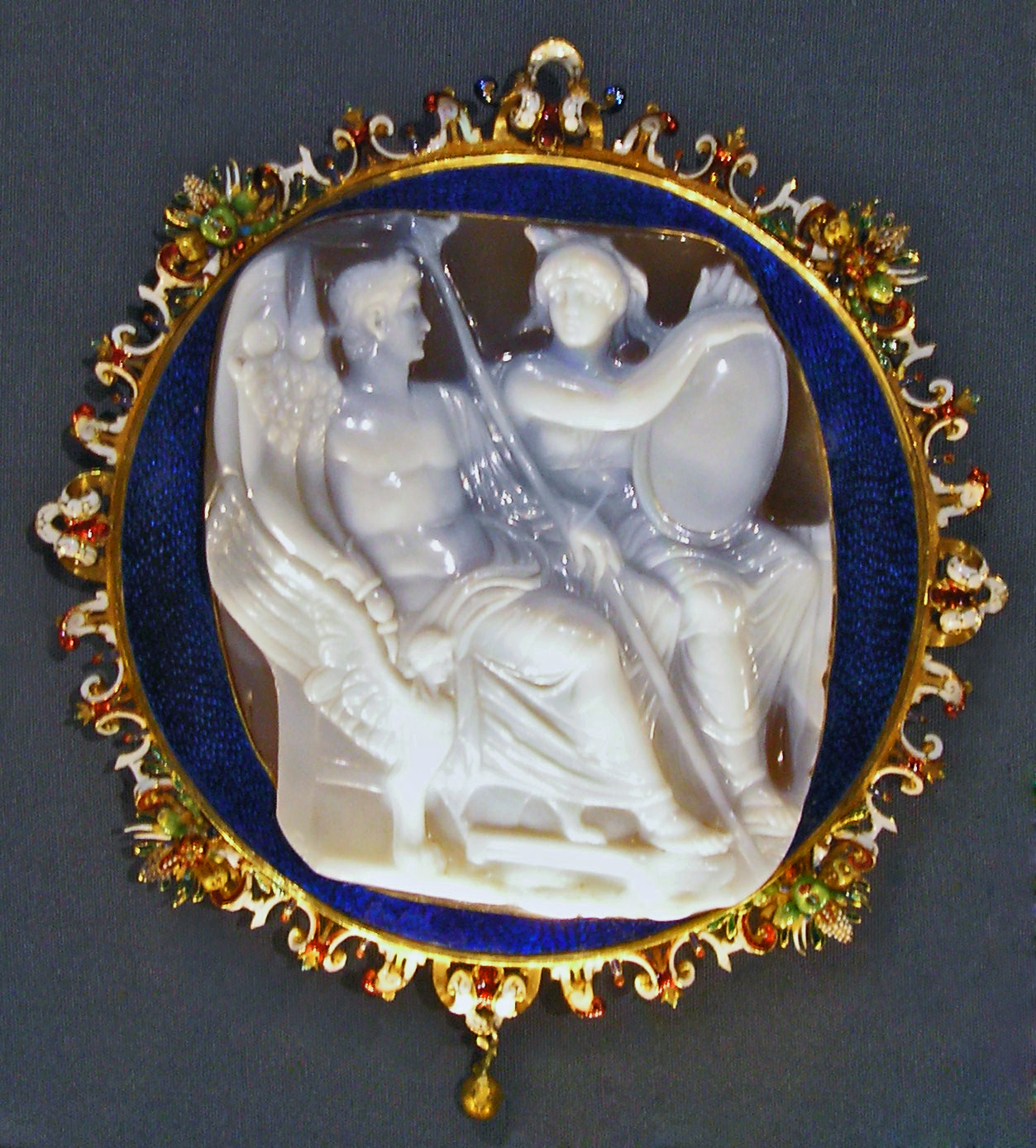 A Gemma, in the Collection of Greek and Roman Antiquities in the Kunsthistorisches Museum, Vienna. Depiction of an Emperor Caligula seated with goddess Roma.